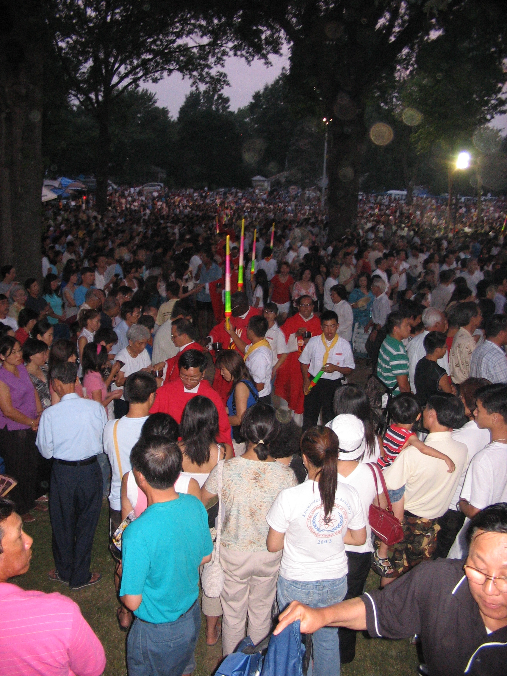 People getting communion in the 2007 Marian Days festival for Vietnamese American Roman Catholics. During evening Masses, scouts hold colorful light-up sticks to guide churchgoers to priests giving out communion.